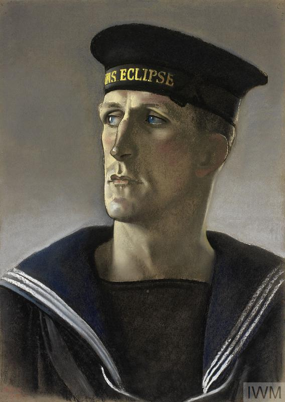 Portrait of Leading Seaman Walker of the Royal Navy vessel HMS Eclipse, by Eric Kennington